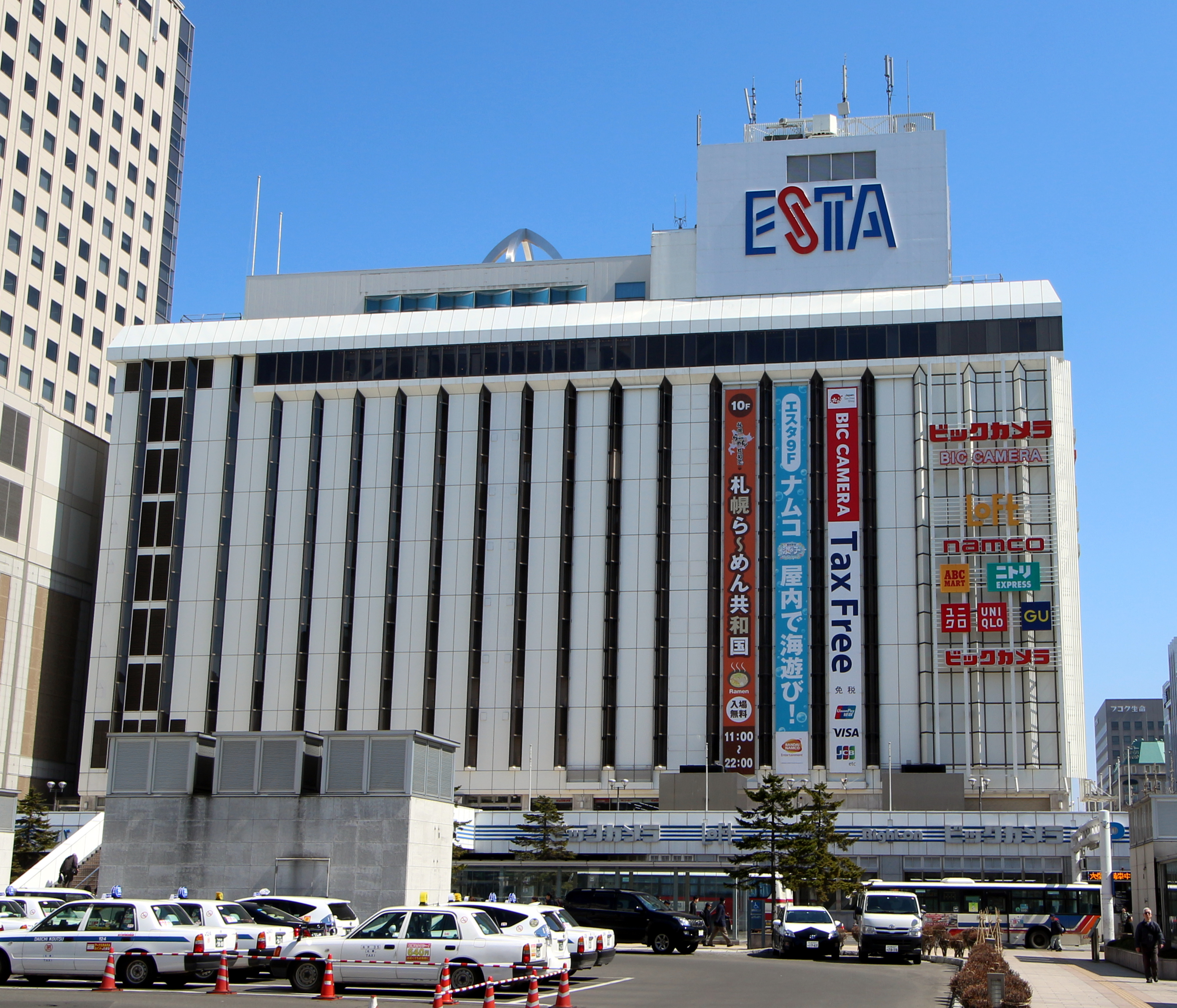 Sapporo Esta building as seen from JR Tower Plaza.